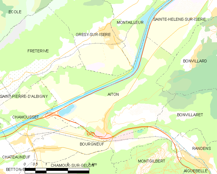 Map of French municipality